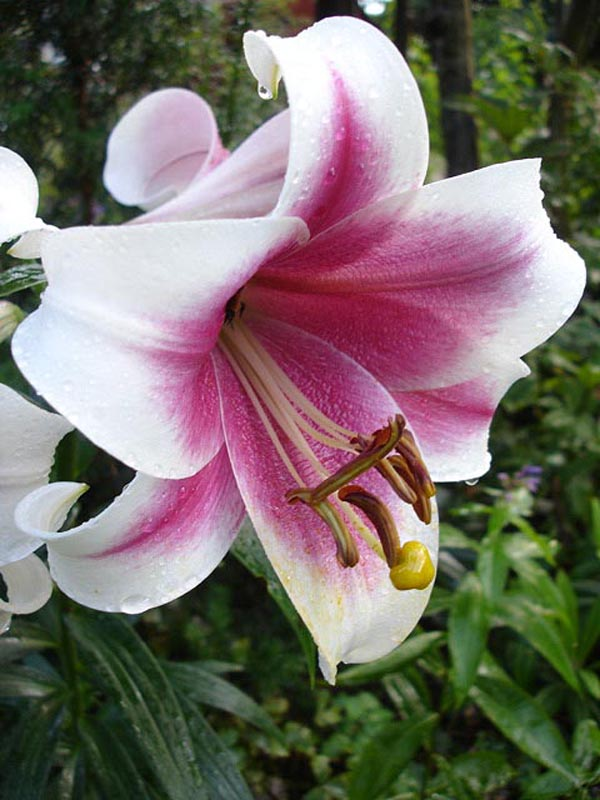 Lilium 'Zanlophator'